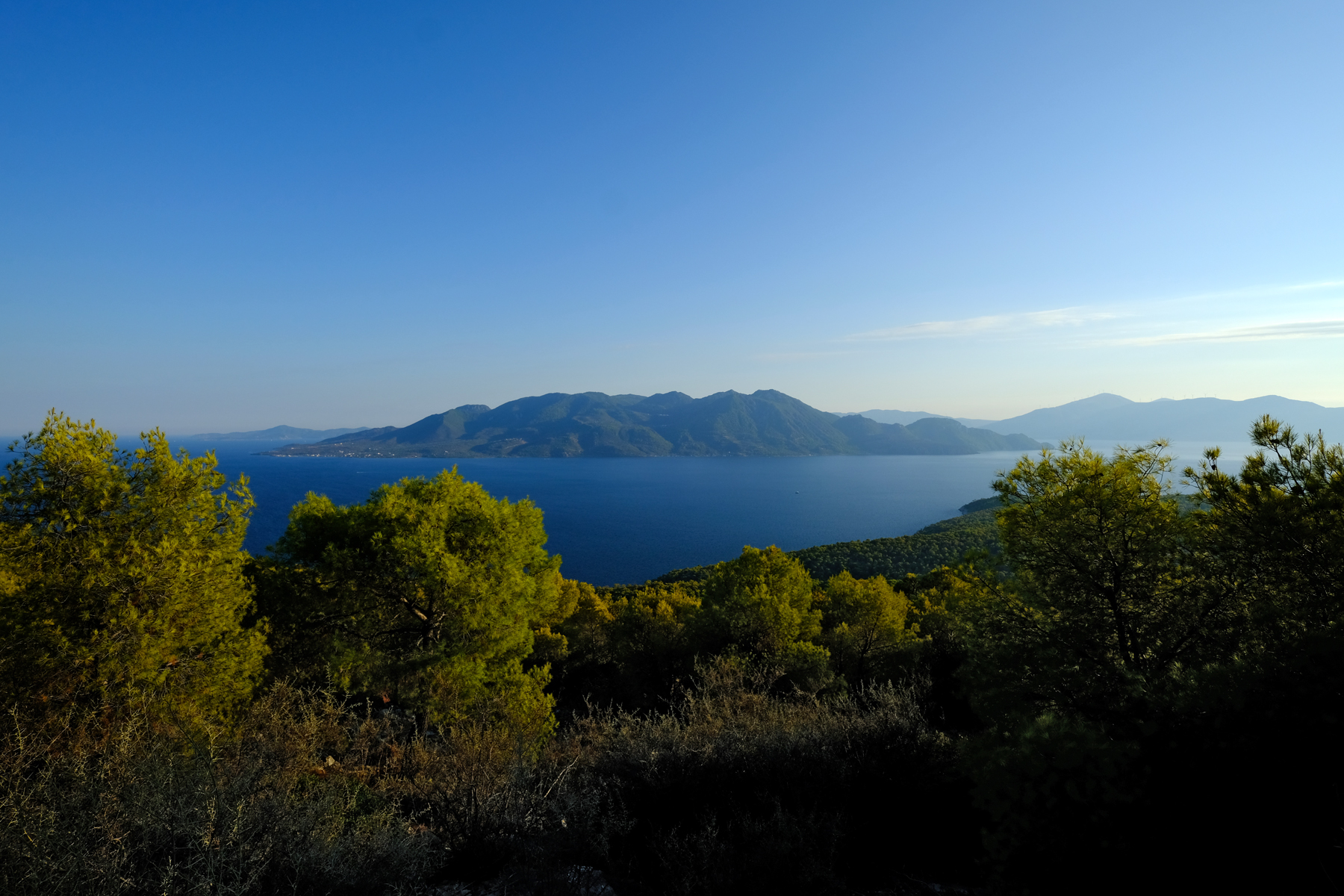 A mountainous peninsula, surrounded by more mountains.